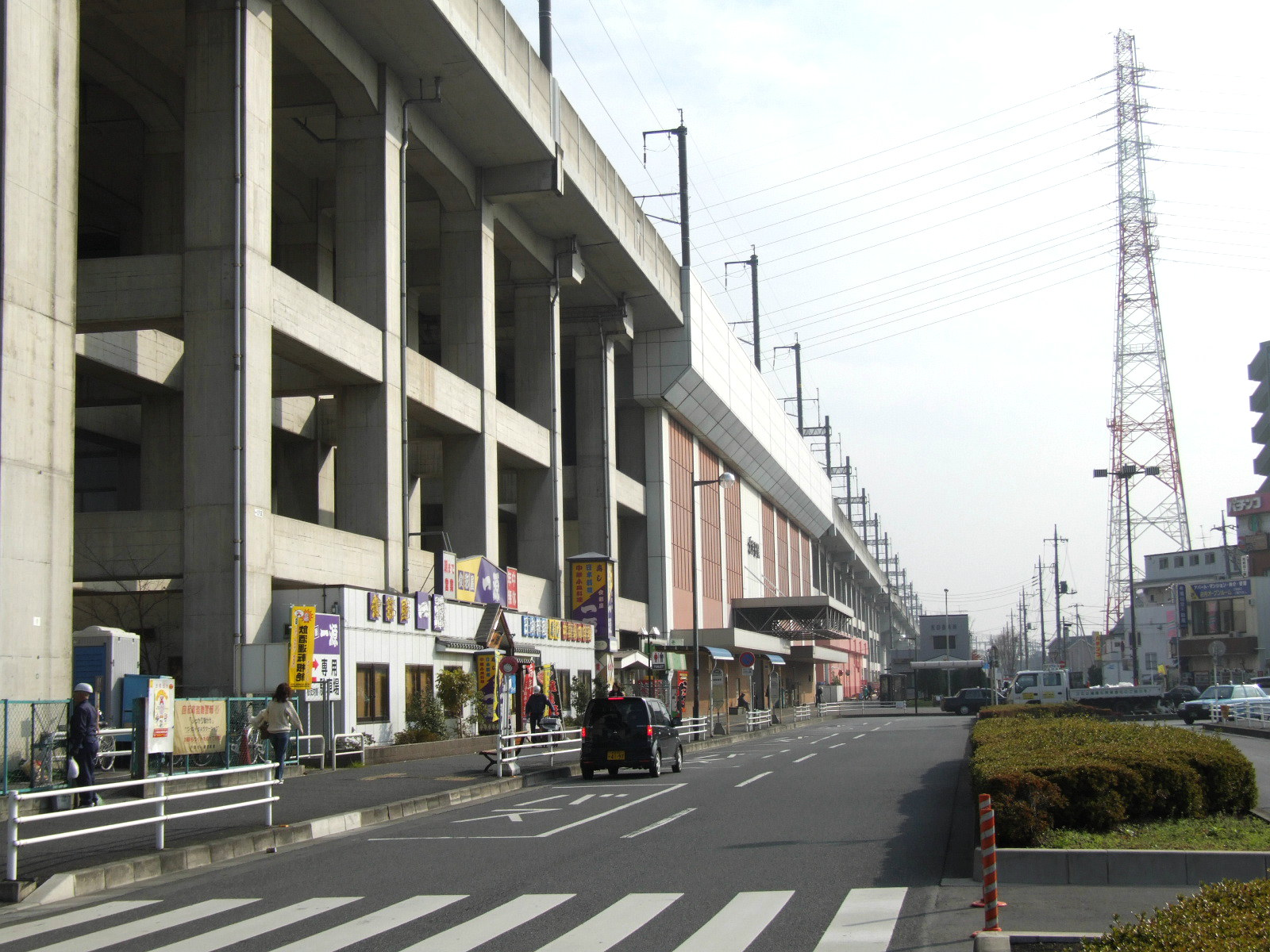 West side of Kita-Toda Station on the Saikyo Line in Toda, Saitama Prefecture